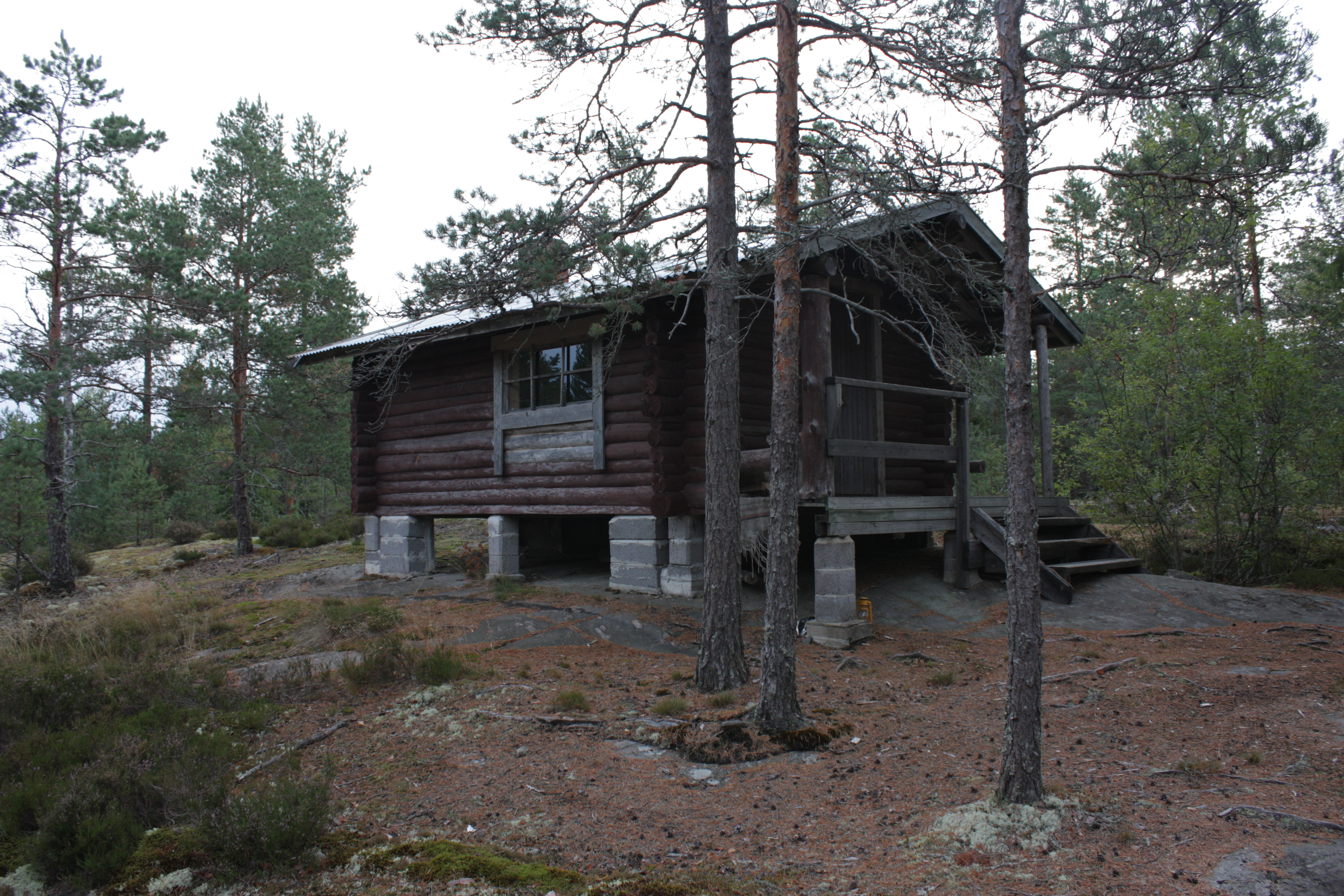 The Vajosuo rental cabin in Kurjenrahka National Park, Finland. The cabin houses four persons and is an old scouts' hut